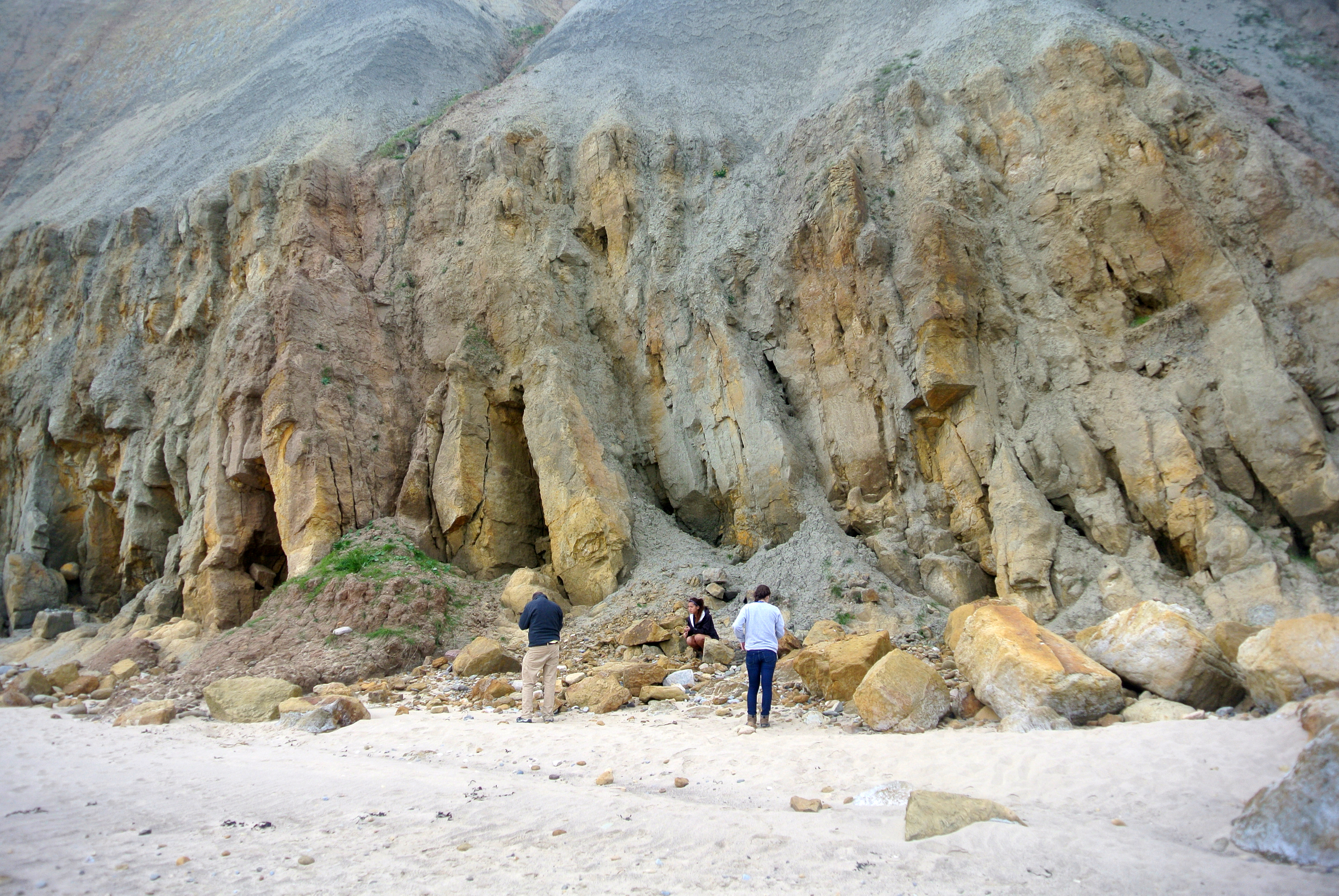 Osgodby Formation (Middle Jurassic) exposed on the shore of Cayton Bay, North Yorkshire.